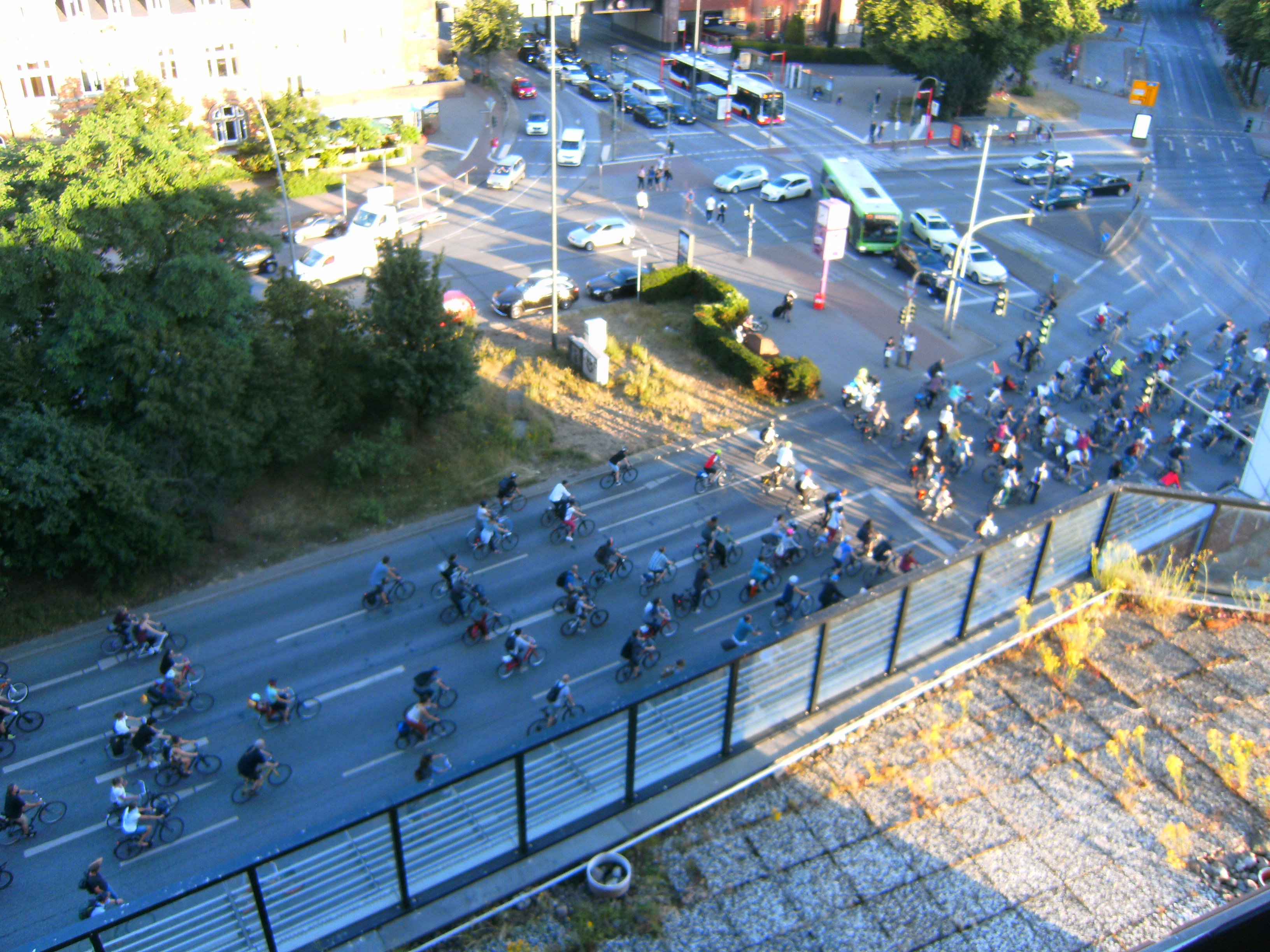 Hamburg, Germany, Critical Mass Hamburg at 28th of June 2019: Bycicles on Hamburger Straße (street) entering Mundsburger Damm in the direction of the center of Hamburg.